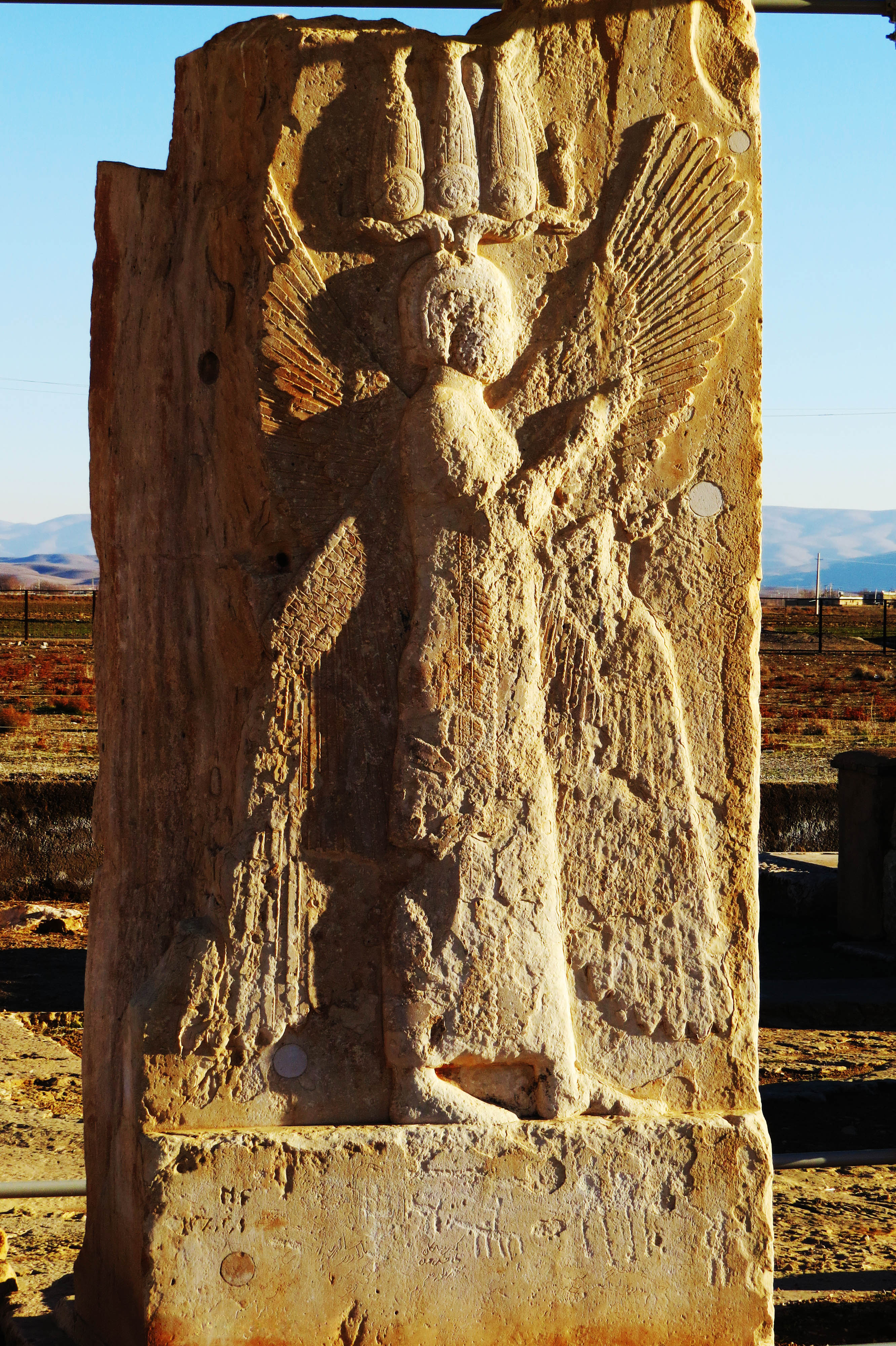 Cyrus the great;CYRUS;PASARGADAE;nima boroumand;نيما برومند